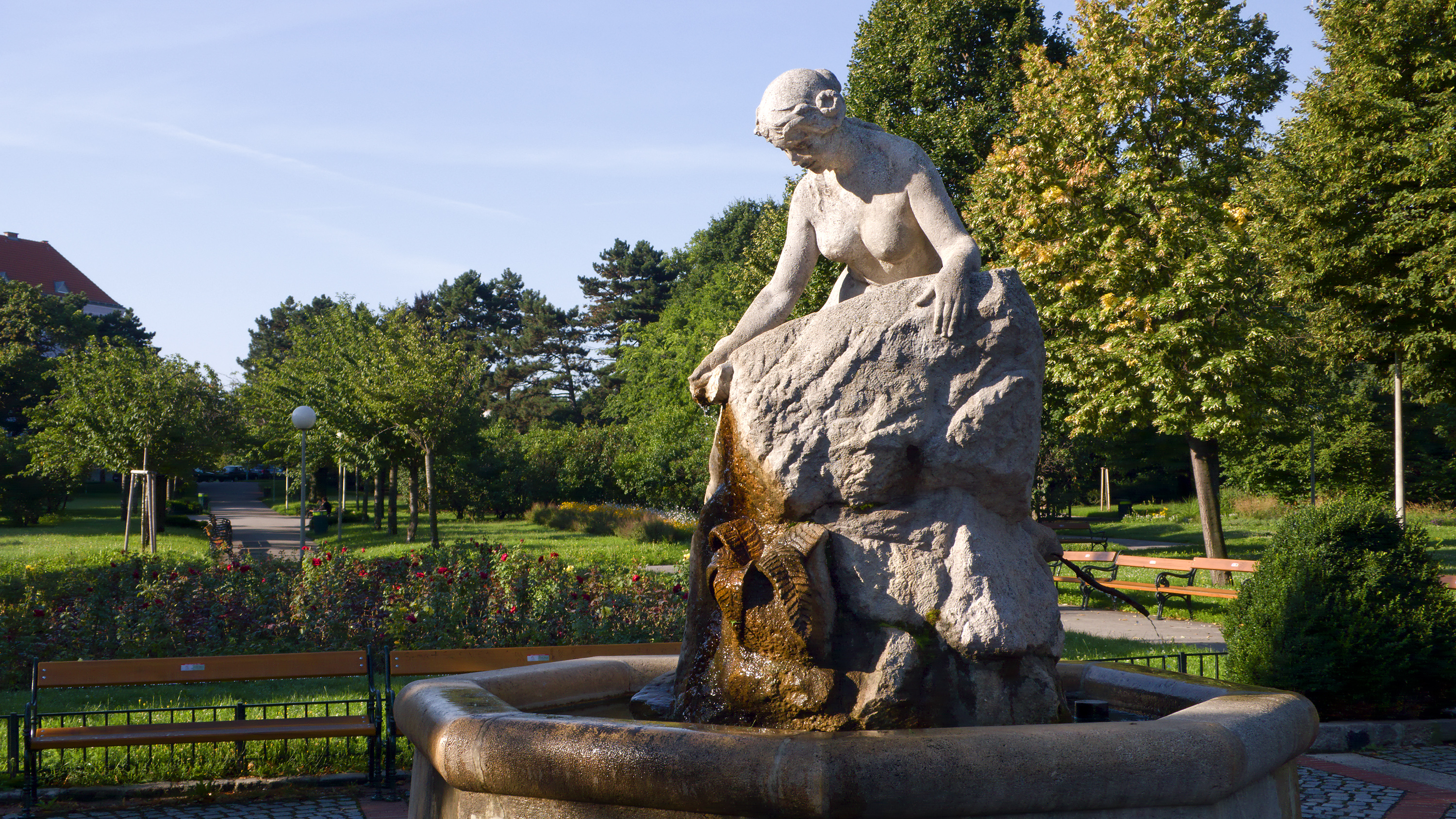 Public park Herderpark in Vienna Simmering